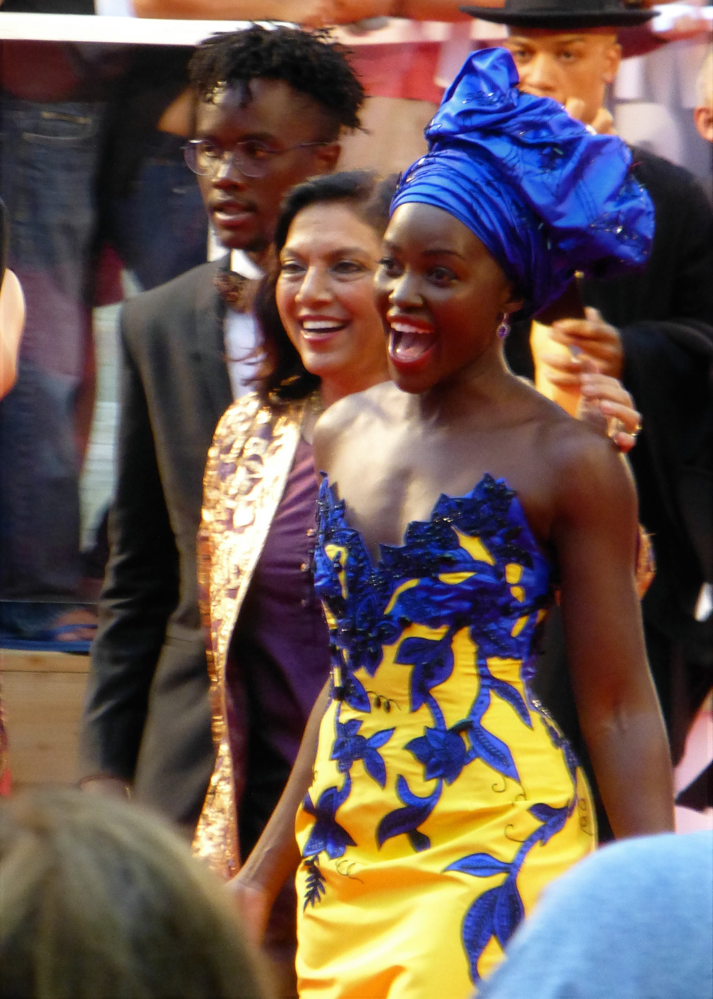 Mira Nair and Lupita Nyong'o at the premiere of Queen of Katwe, 2016 Toronto Film Festival